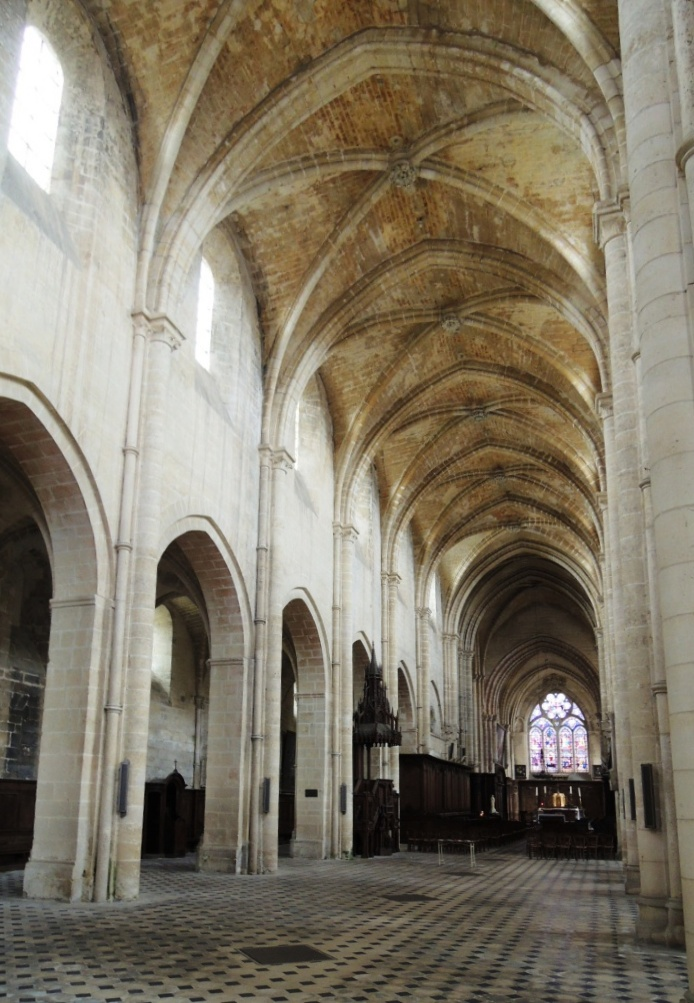 Laon, St. Martin, interior